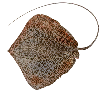 Leopard whipray (Himantura leoparda)